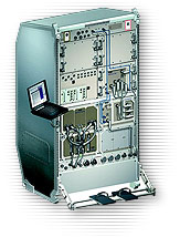 European Drawer Rack in Columbus-Modul